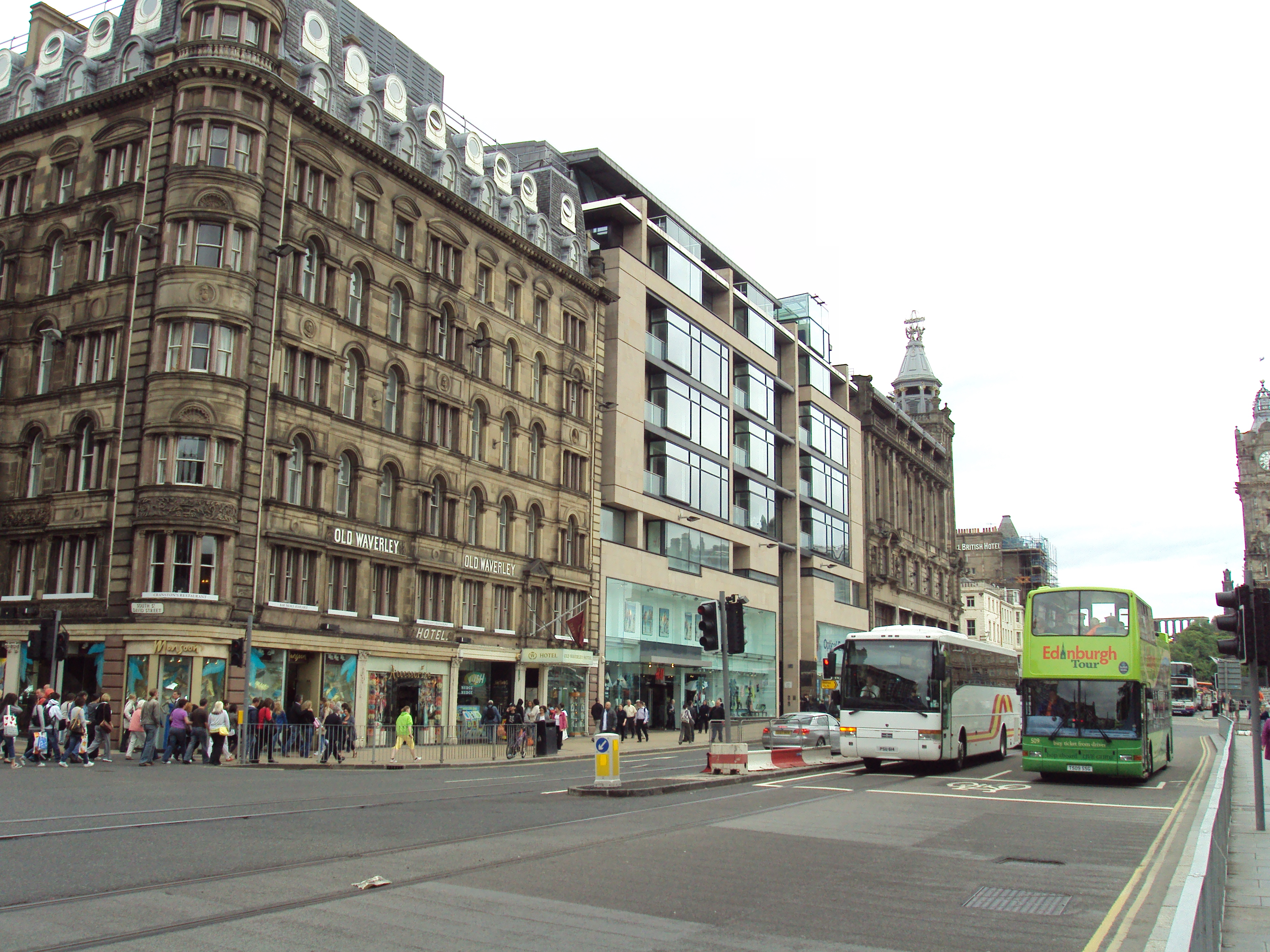 Princes Street, Edinburgh, Scotland.